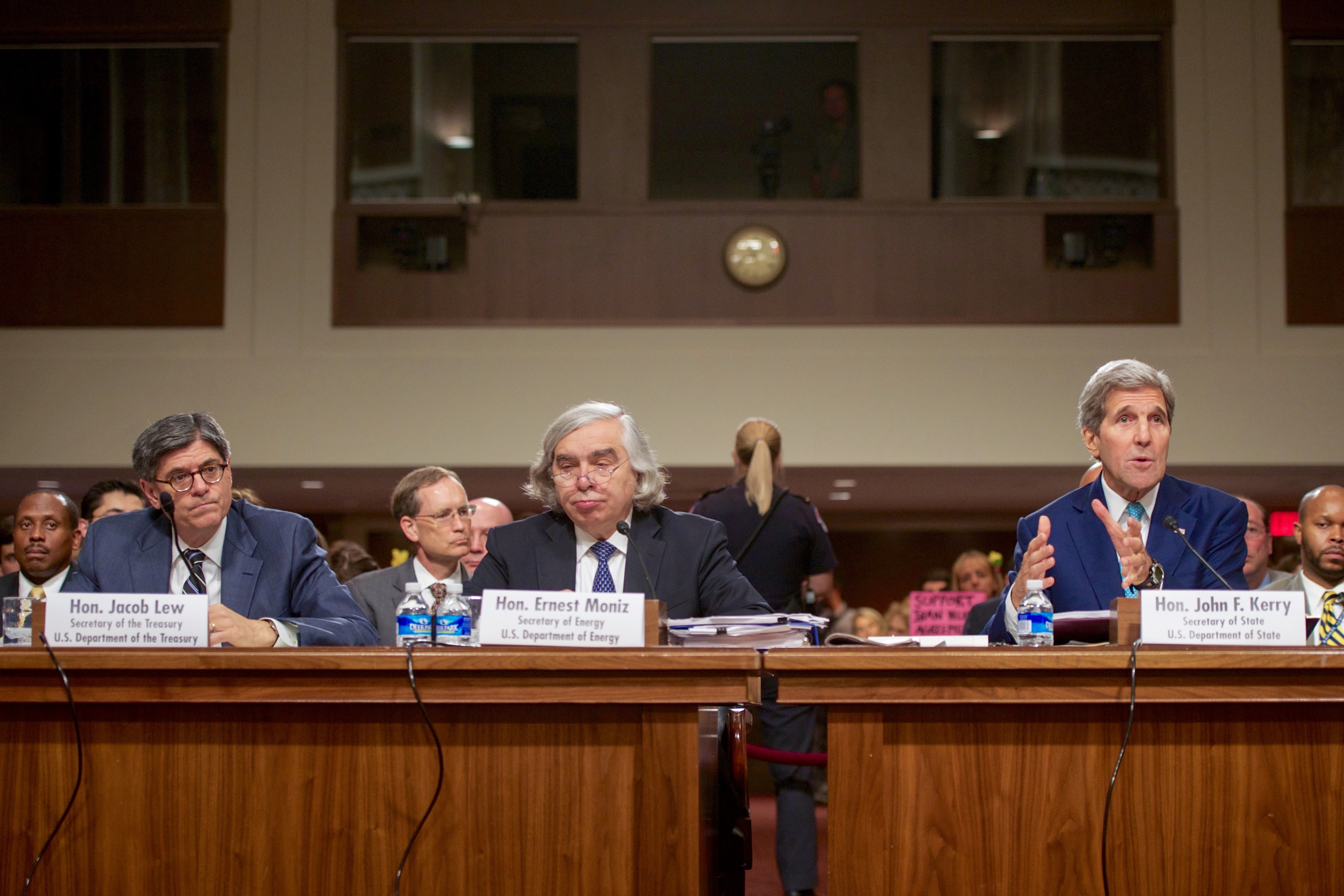 John Kerry, Dr. Ernest Moniz and U.S. Treasury Secretary Jack Lew, testifies about the Iranian nuclear deal before the Senate Foreign Relations Committee in Washington, D.C.